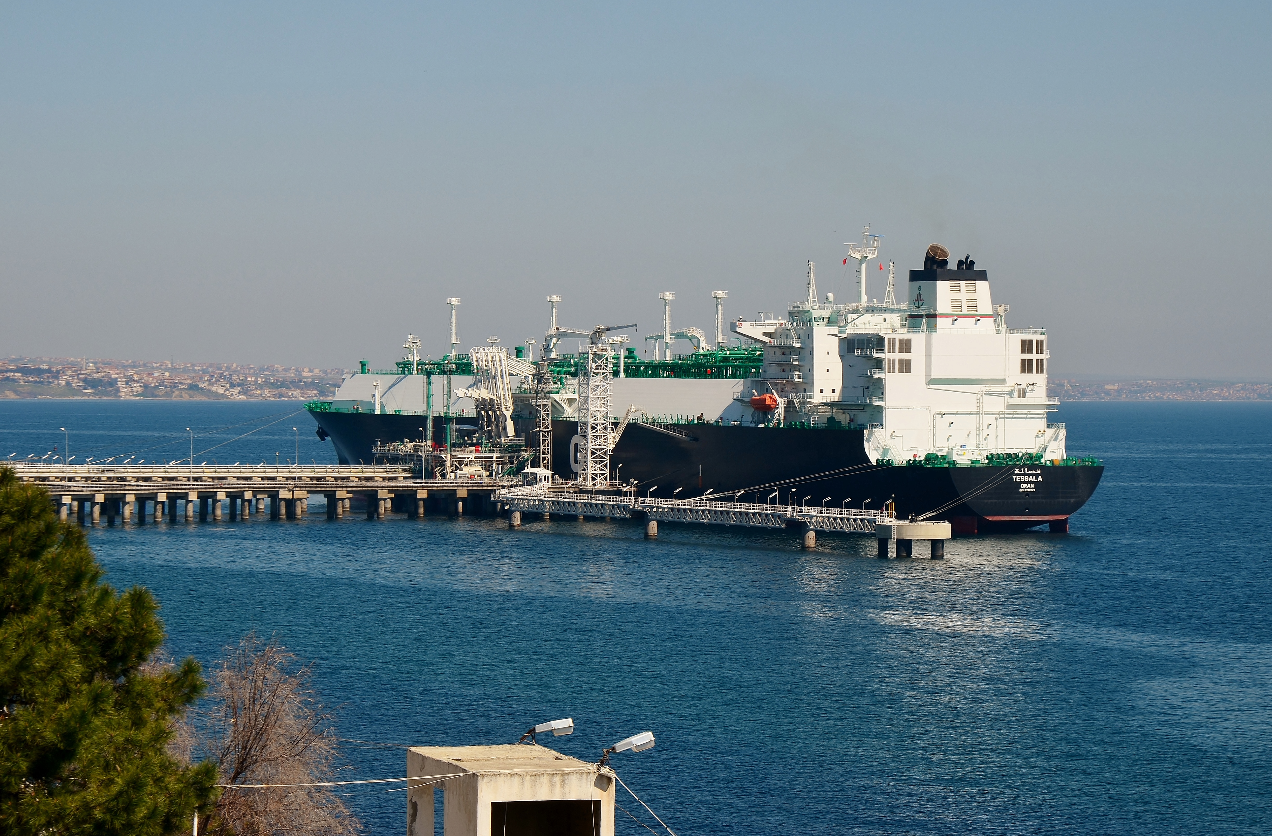 LNG carrier Tessala - IMO 9761243 at Marmara Ereğlisi LNG Storage Facility in Turkey